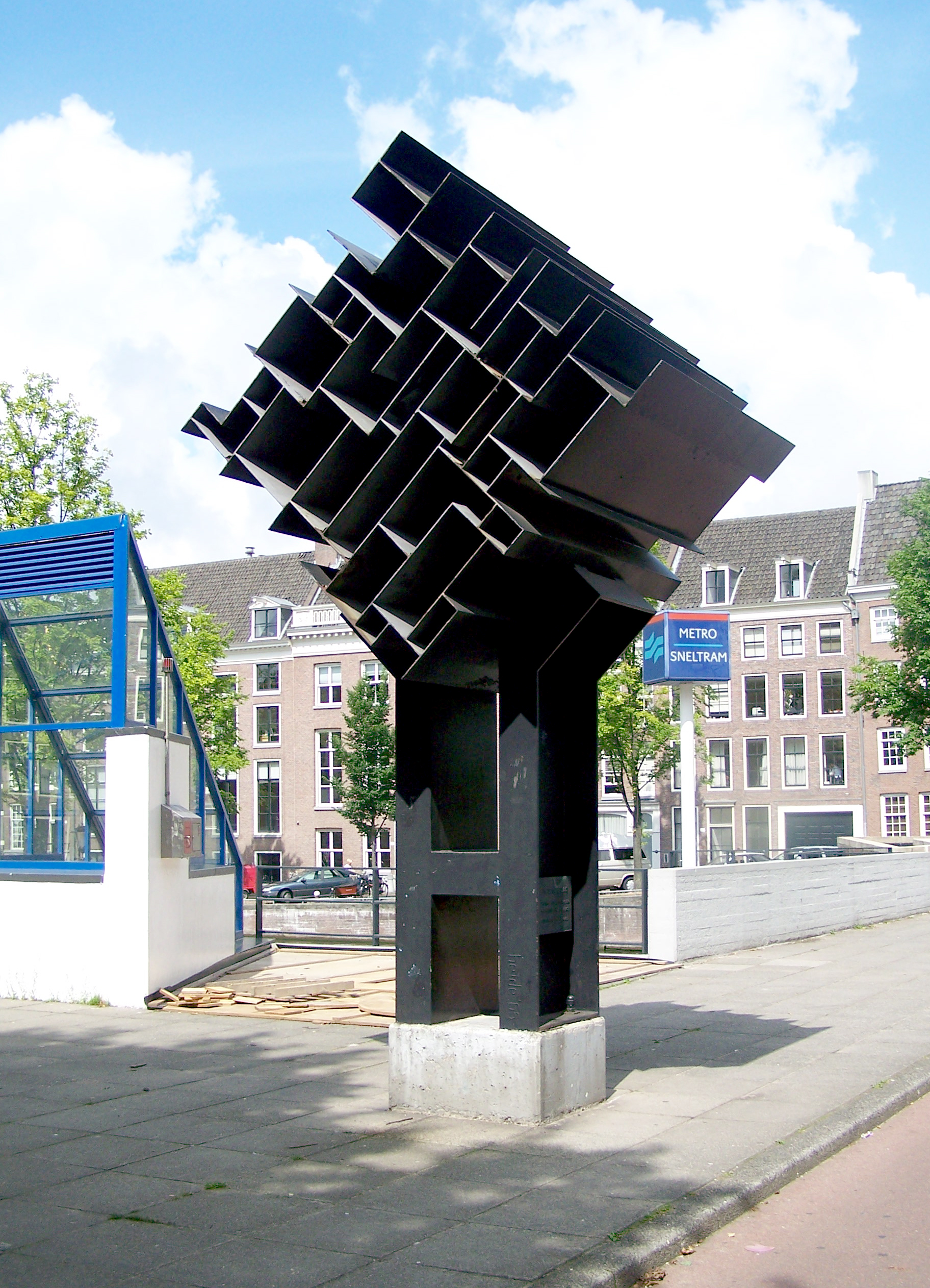 Monument for M.S. Vaz Dias, Made by Herman van der Heide in 1965. Placed at the Weesperstraat in Amsterdam.